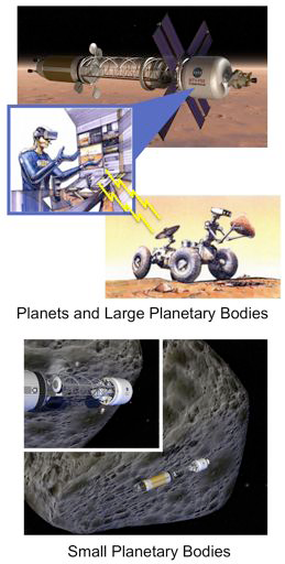 Graphic from the article for the proposed NASA mission HERRO Manned_mission_to_Mars